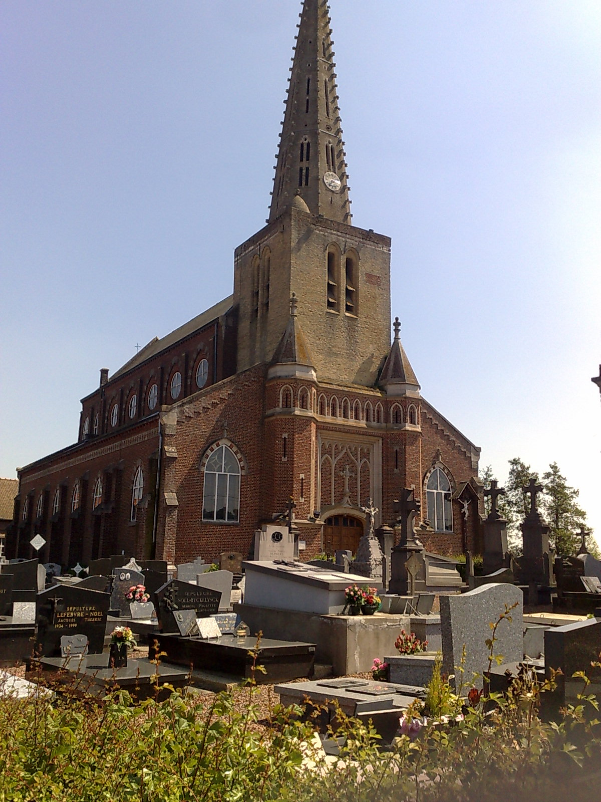 church Noordpene